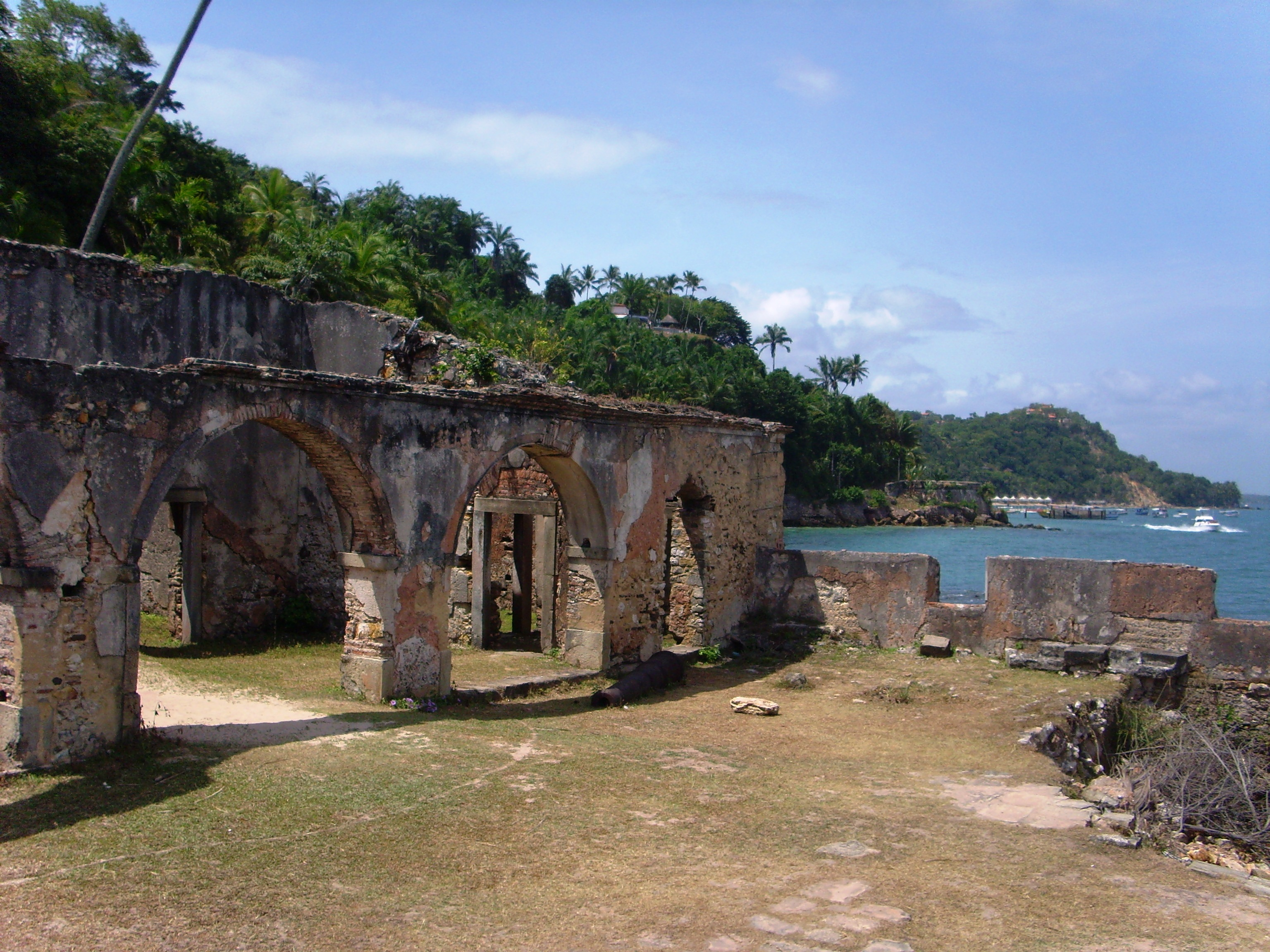 Praça das Armas - Fortaleza de Morro de São Paulo.